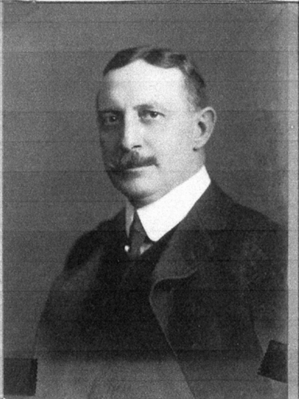 Frank Harris Anson was the original owner of the Abitibi Power and Paper Company in Iroquois Falls, Ontario, Canada.